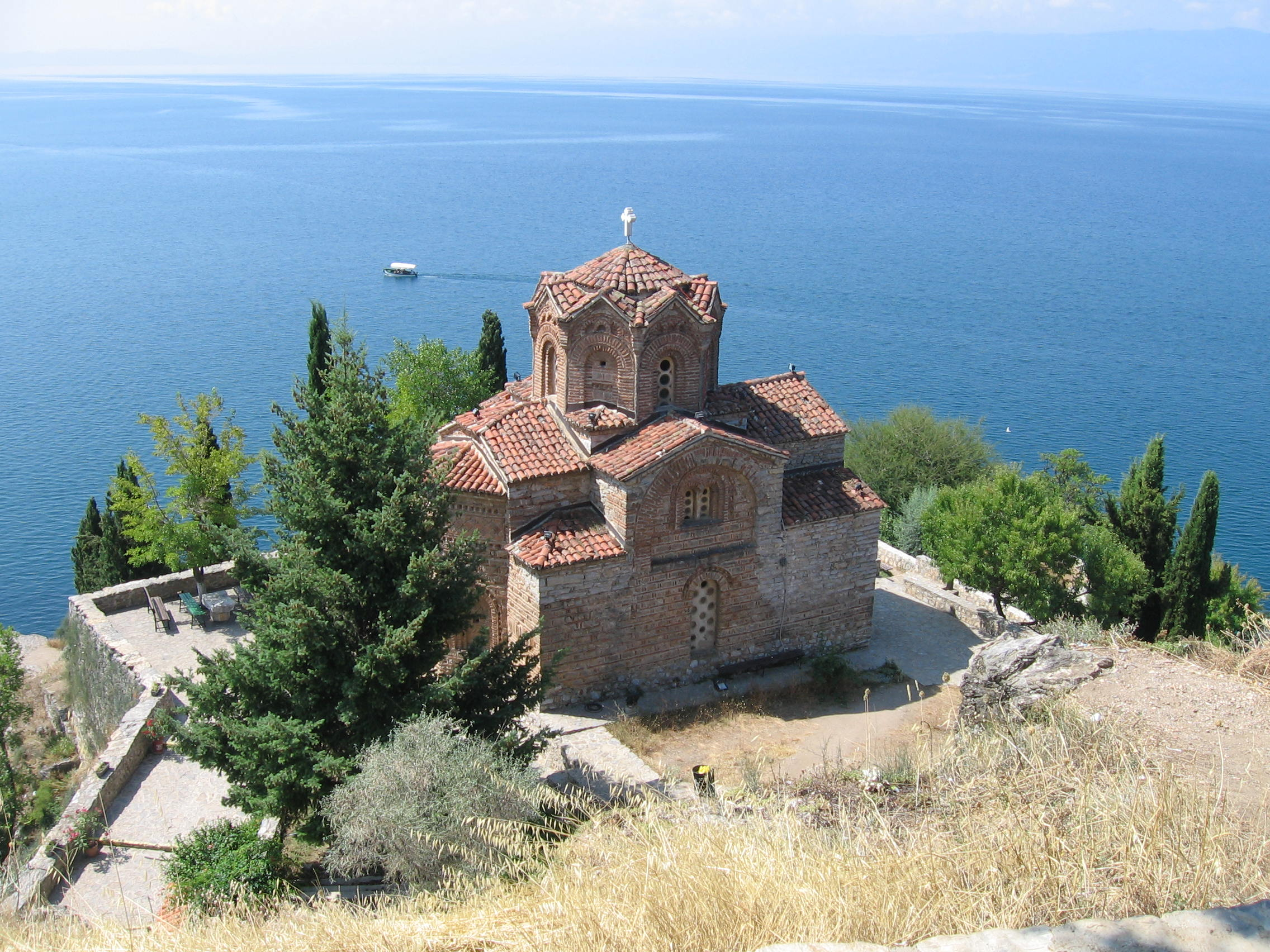 Ohrid, North Macedonia - St John Kaneo church